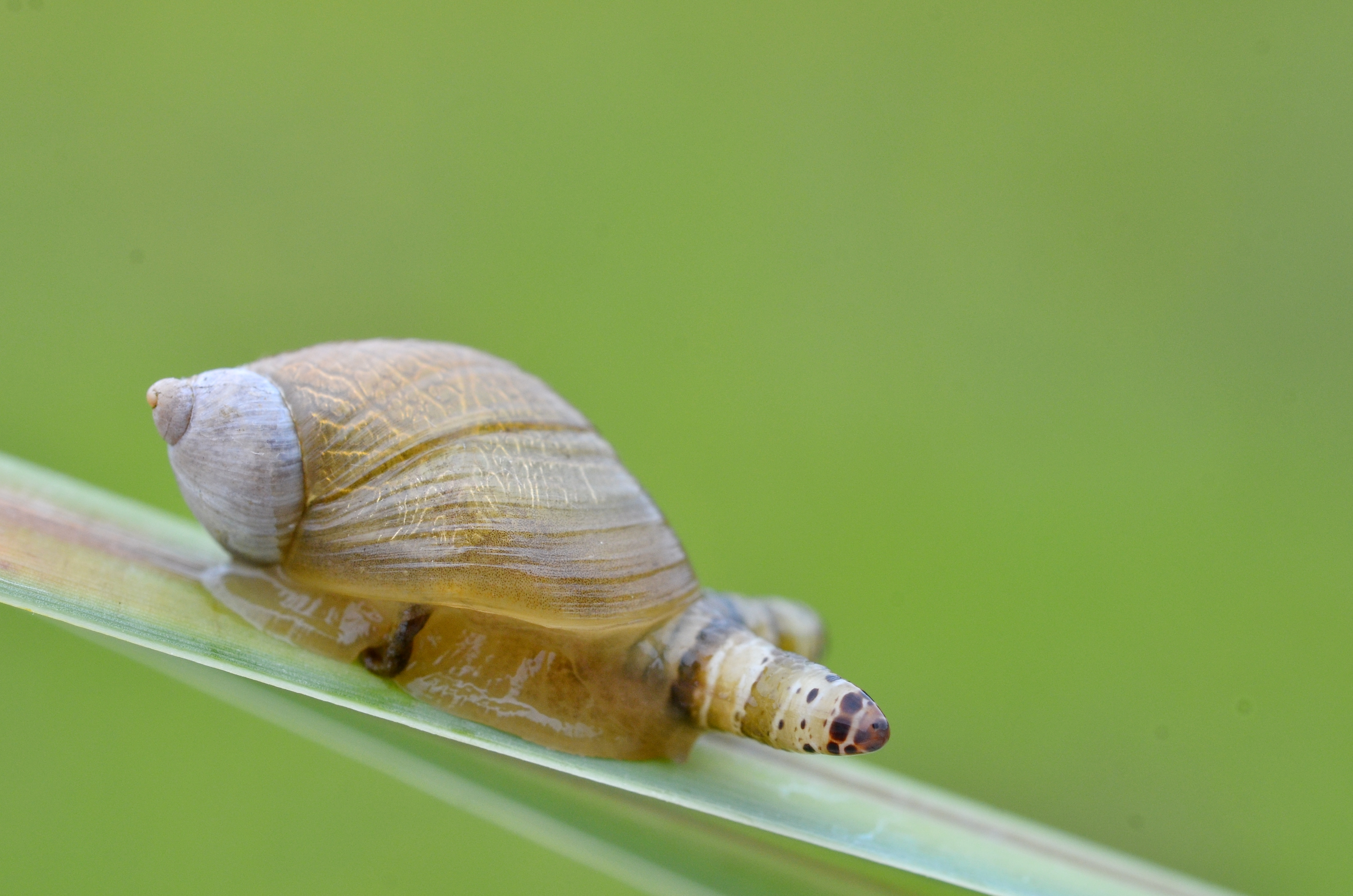 A flatworm (Platyhelminthes, Trematoda) of the genus Leucochloridium parasiting a snail of the familly Succineidae (probably Succinea putris or an Oxyloma sp.). The banded pulsating structure visible within the tentacles of the snails are the sporocysts's broodsacs filled of cercariae. The cercariae need to be ingested by a bird to develop up to adult stage in the digestive system of the bird. The change in color and aspect (pulsations) of the snail increases the probability to be eaten by a bird. Locallity : Belgium, Jambes, Réserve Naturelle de la Poudrière Aggressive mimicry, parasite